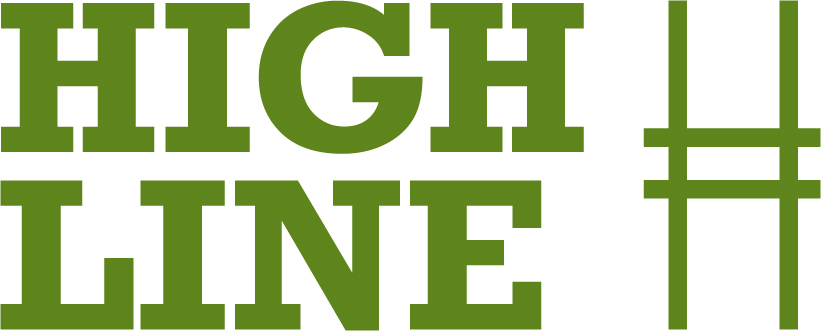 High Line logotyp